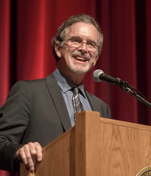 Photograph of Garry Trudeau, the fifth Rathbun Visiting Fellow, delivering "Harry's Last Lecture on a Meaningful Life," on April 28, 2014 at Stanford University.